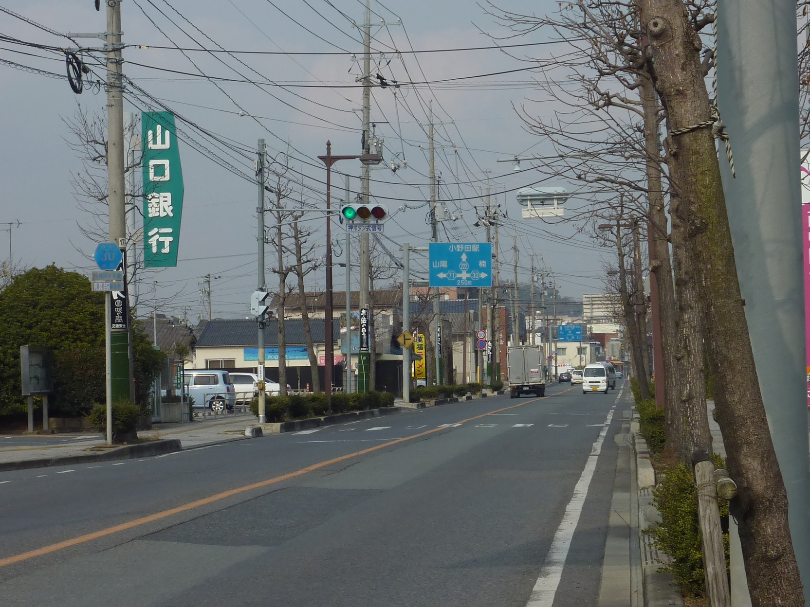 Yamaguchi Prefectural Road No.30 Onoda-Mito Line (Sanyo-Onoda City, Yamaguchi Japan)